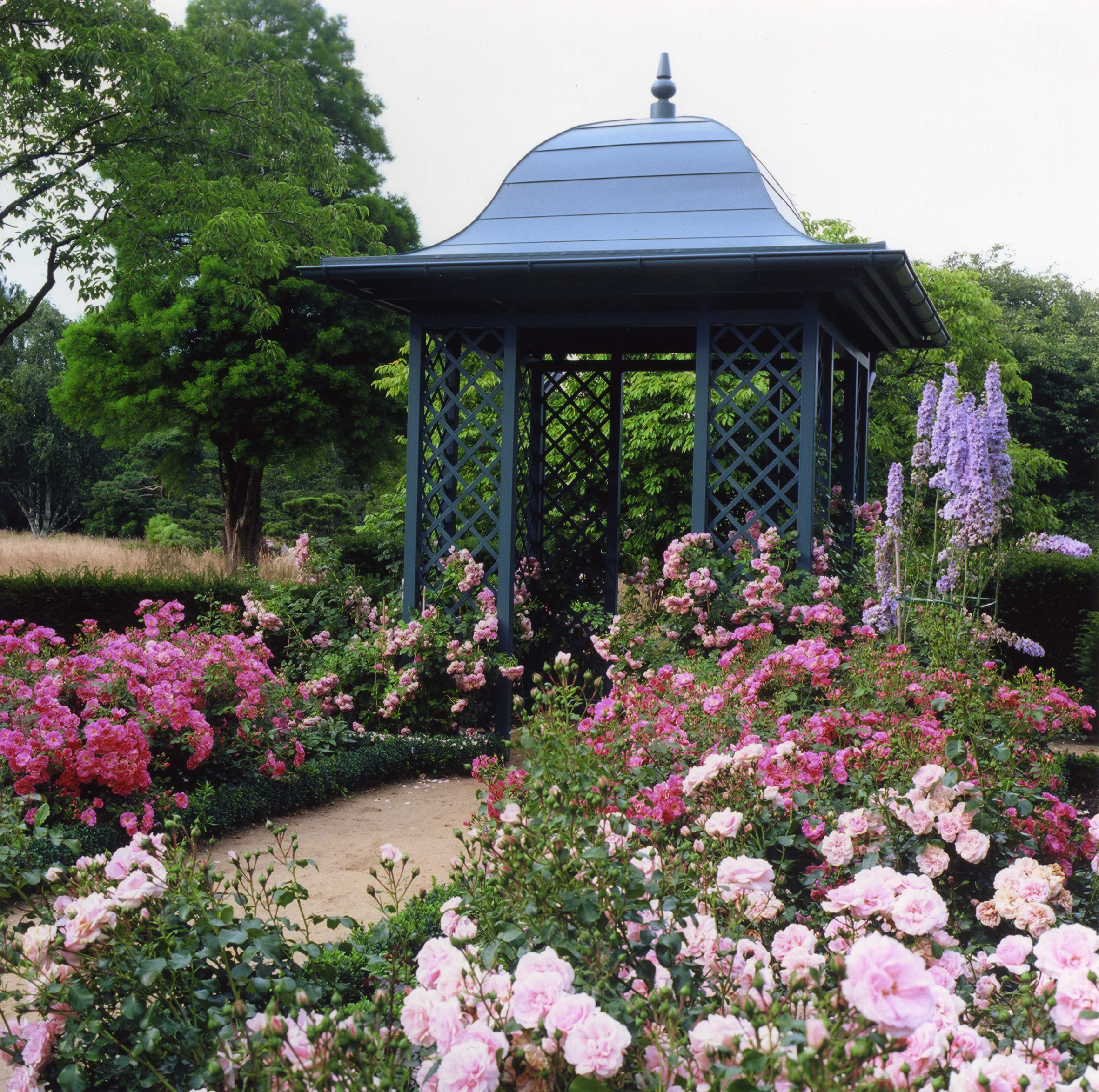 Pavilion in the rose garden in the Arboretum Ellerhoop, Schleswig-Holstein, Germany